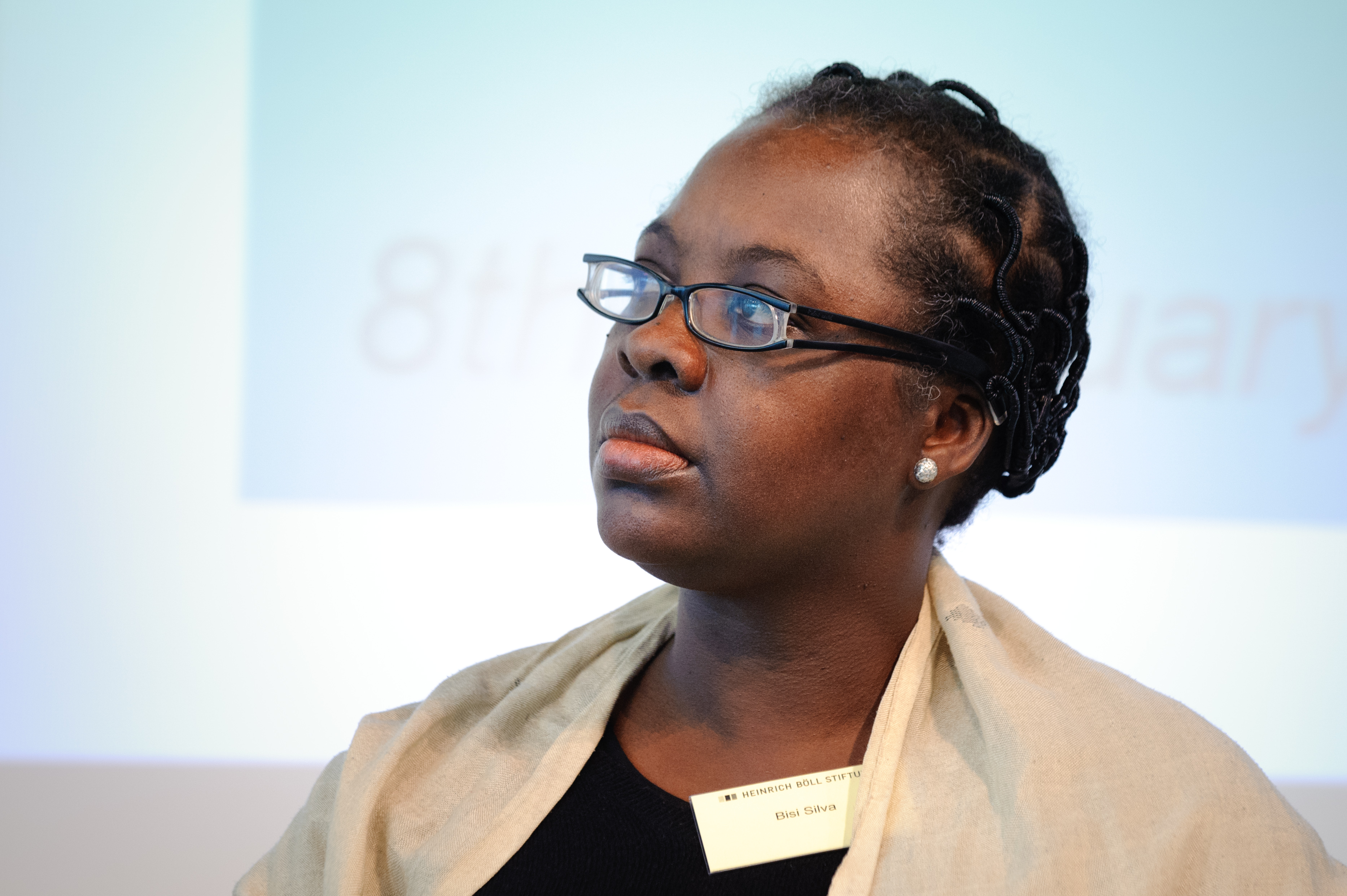 Bisi Silva (Center for Contemporary Art, Lagos, Nigeria) radius of art - Konferenz Foto: Stephan Röhl